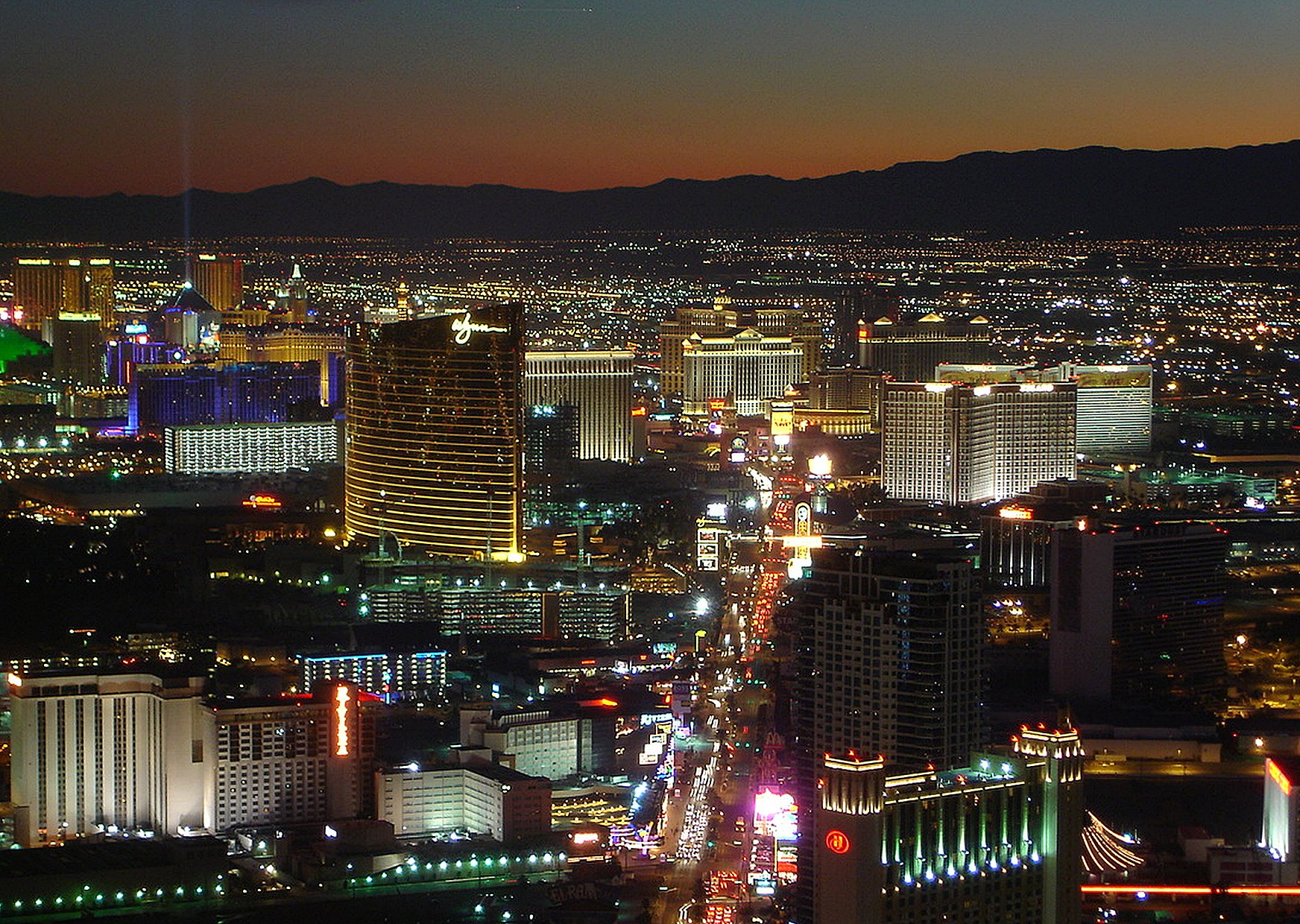 "I, Signaturebrendel, shot the picture myself from the 108th floor of the Stratosphere Tower. The picture is showing the Las Vegas Strip facing south. Visible landmarks include Riviera (hotel and casino), Circus Circus, Wynn, Fashion Show Mall, The Venetian, Treasure Island, Bally's, Paris, Flamingo, The Mirage, Caesars Palace, Bellagio, Monte Carlo, New York-New York, Luxor, THEhotel and Mandalay Bay." The above text is from the original owner of this photo. I merely converted this photo from the PNG file format to JPG, a more suitable format for photos.